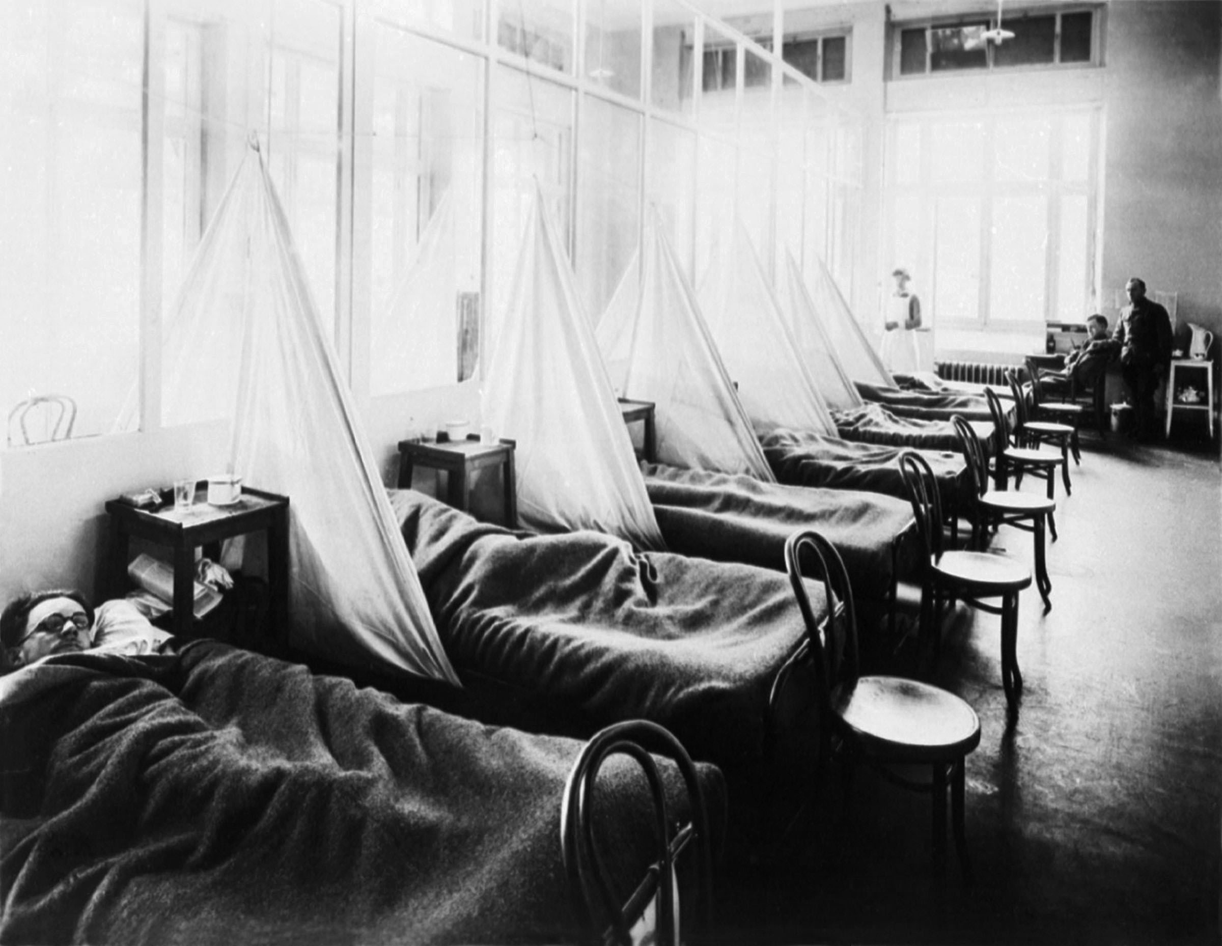 U.S. Army Camp Hospital No. 45, Aix-Les-Bains, France, Influenza Ward No. 1. Influenza pandemic ward during World War I.